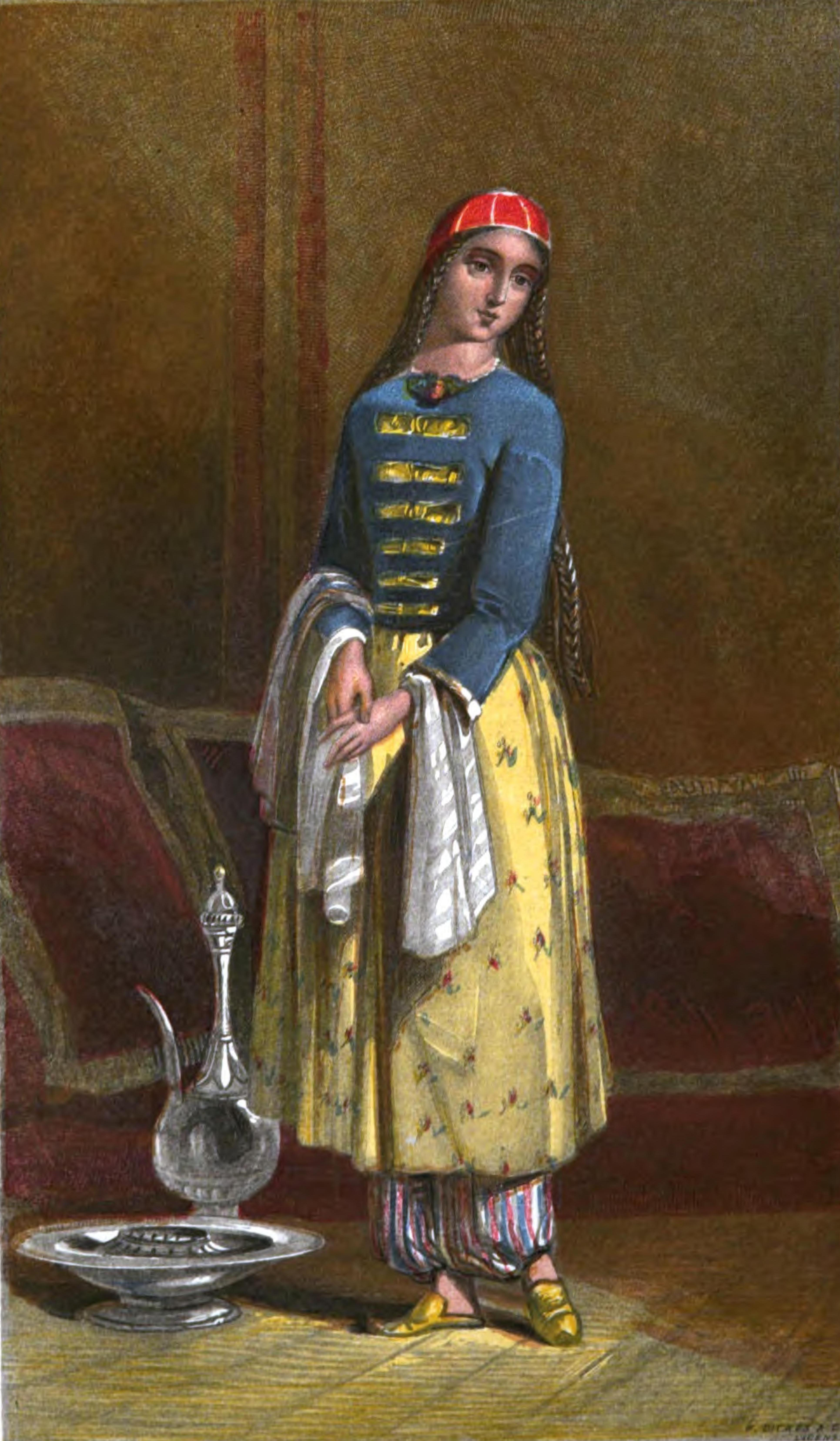 Edmund Spencer, Turkey, Russia, the Black Sea, and Circassia